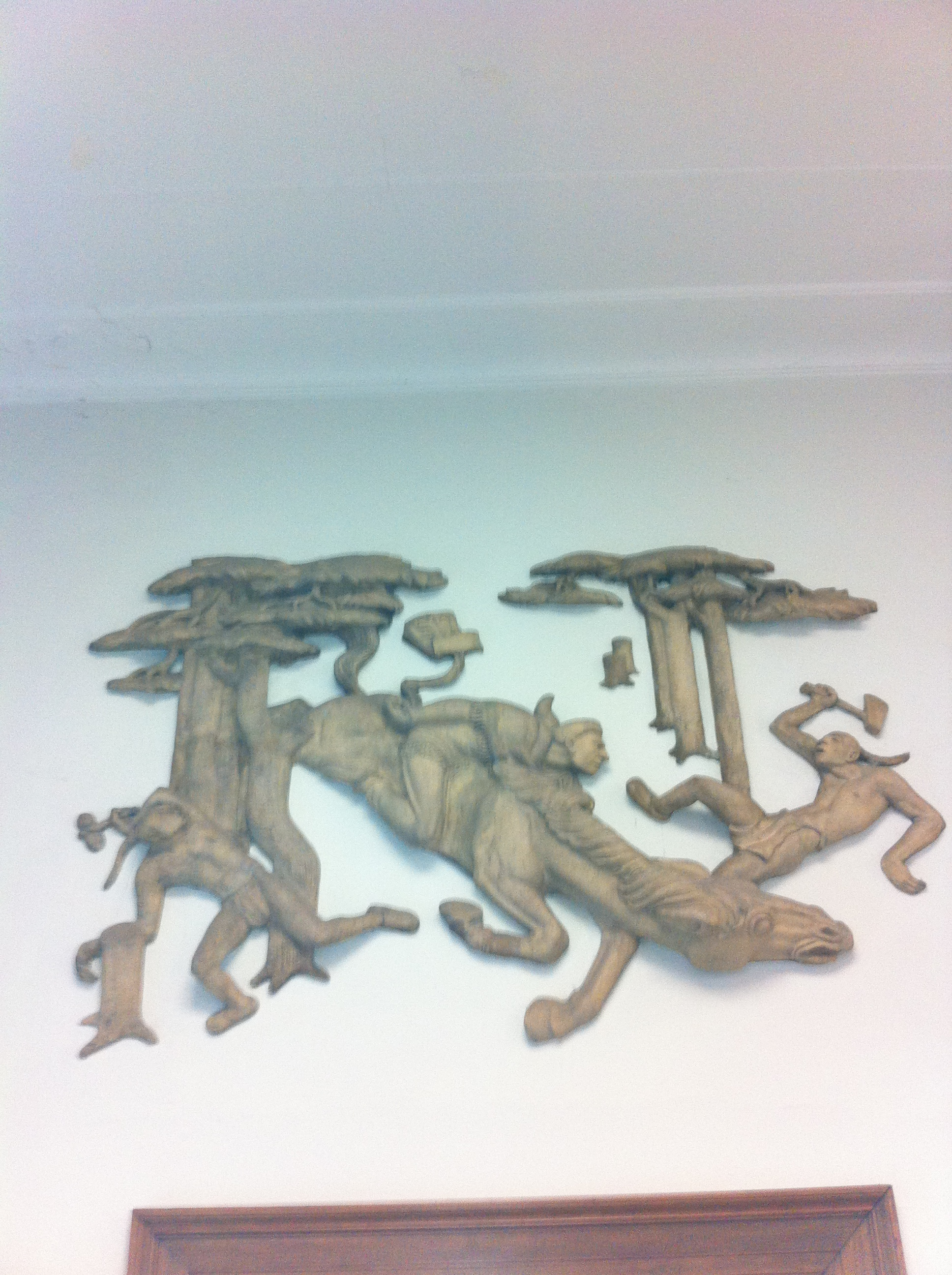 Completed in 1941